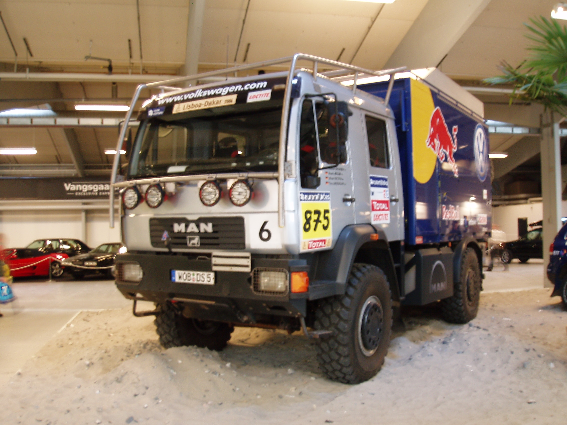 MAN truck from the Paris - Dakar race photographed at car show in Bella Center.